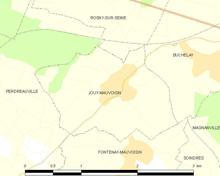 Map of French municipality Jouy-Mauvoisin